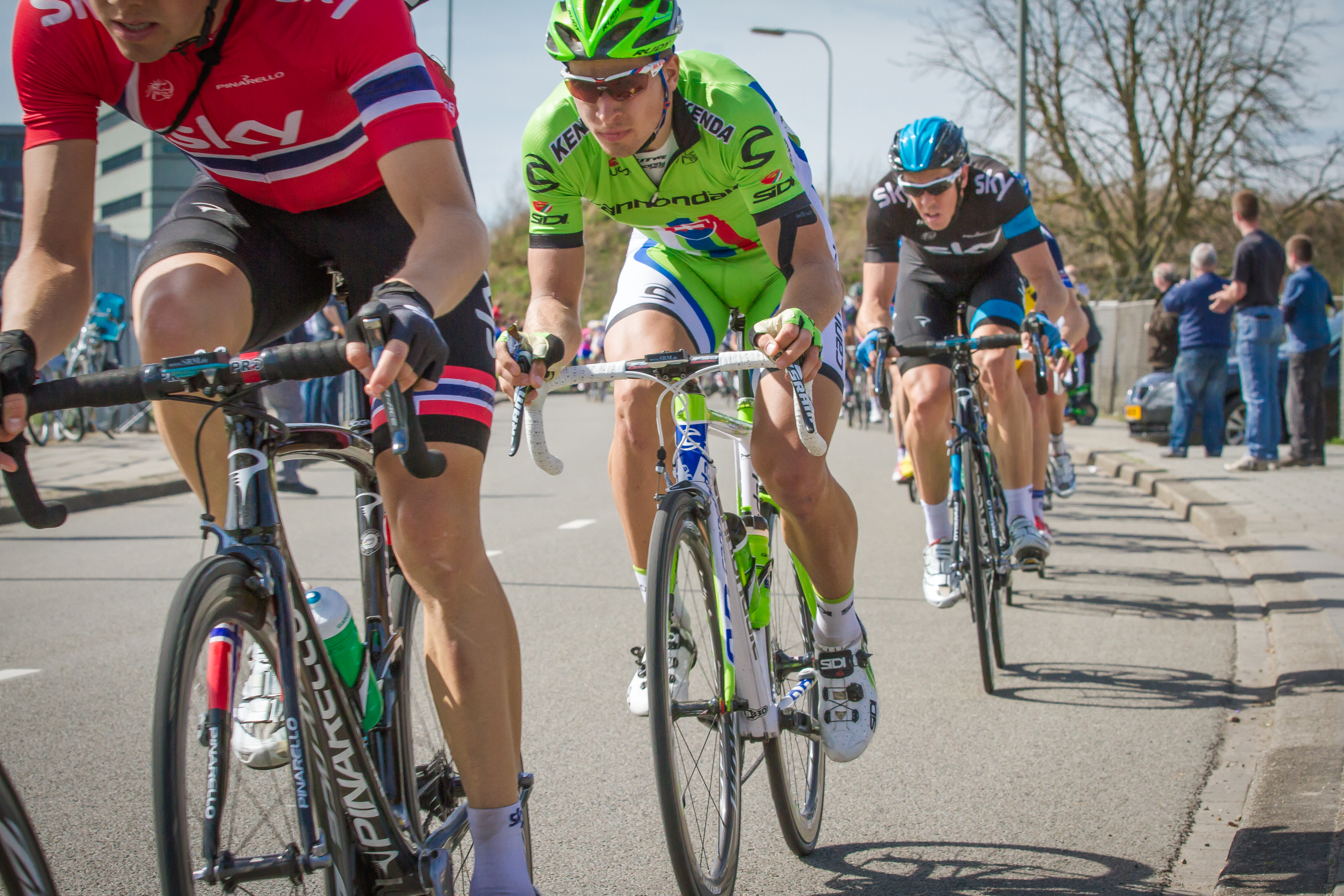 Edvald Boasson Hagen of Sky and Peter Sagan of Cannondale. Amstel Gold Race 2013, Maastricht, Netherlands.